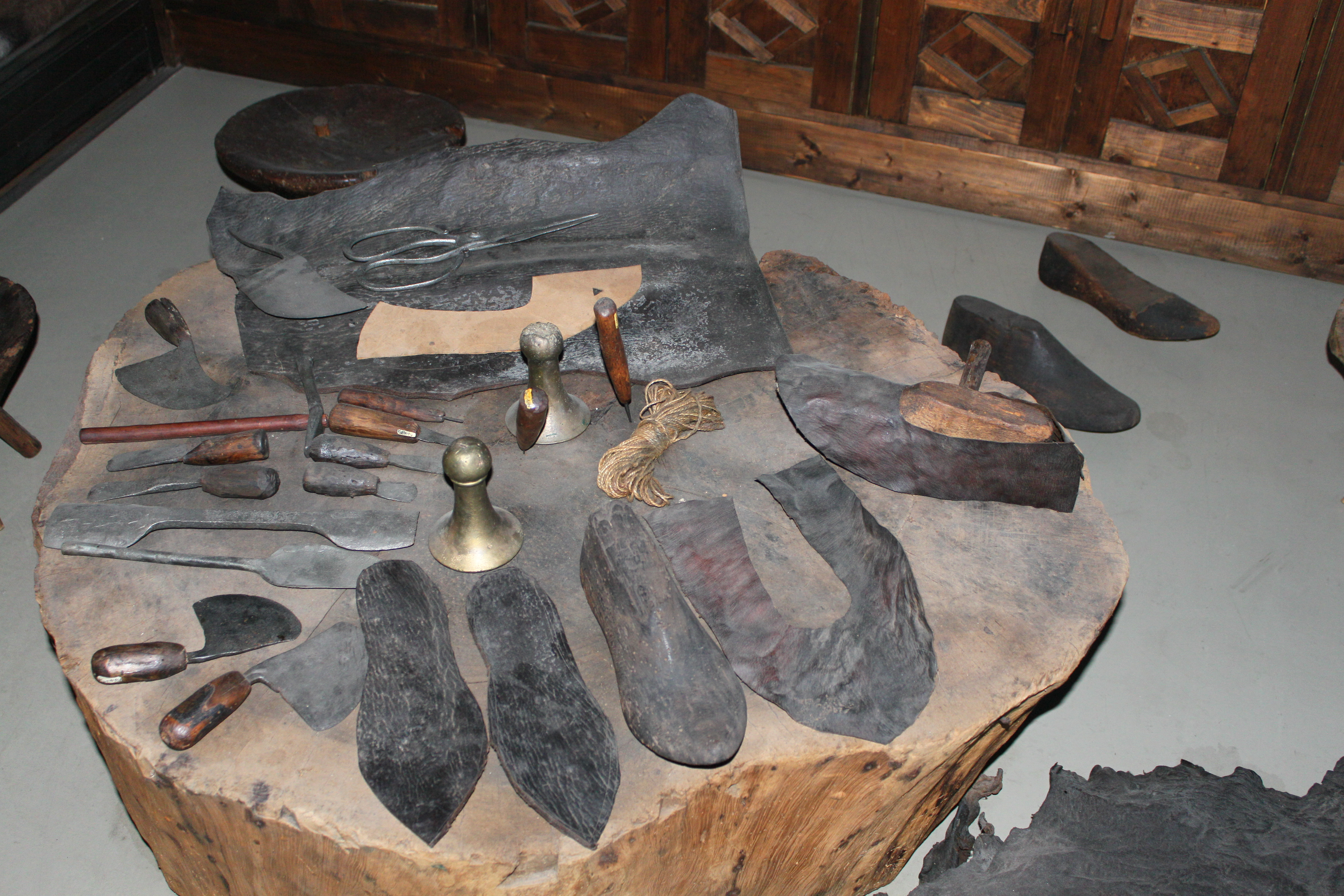 Kardzhali Museum of History, Kardzhali , Bulgaria